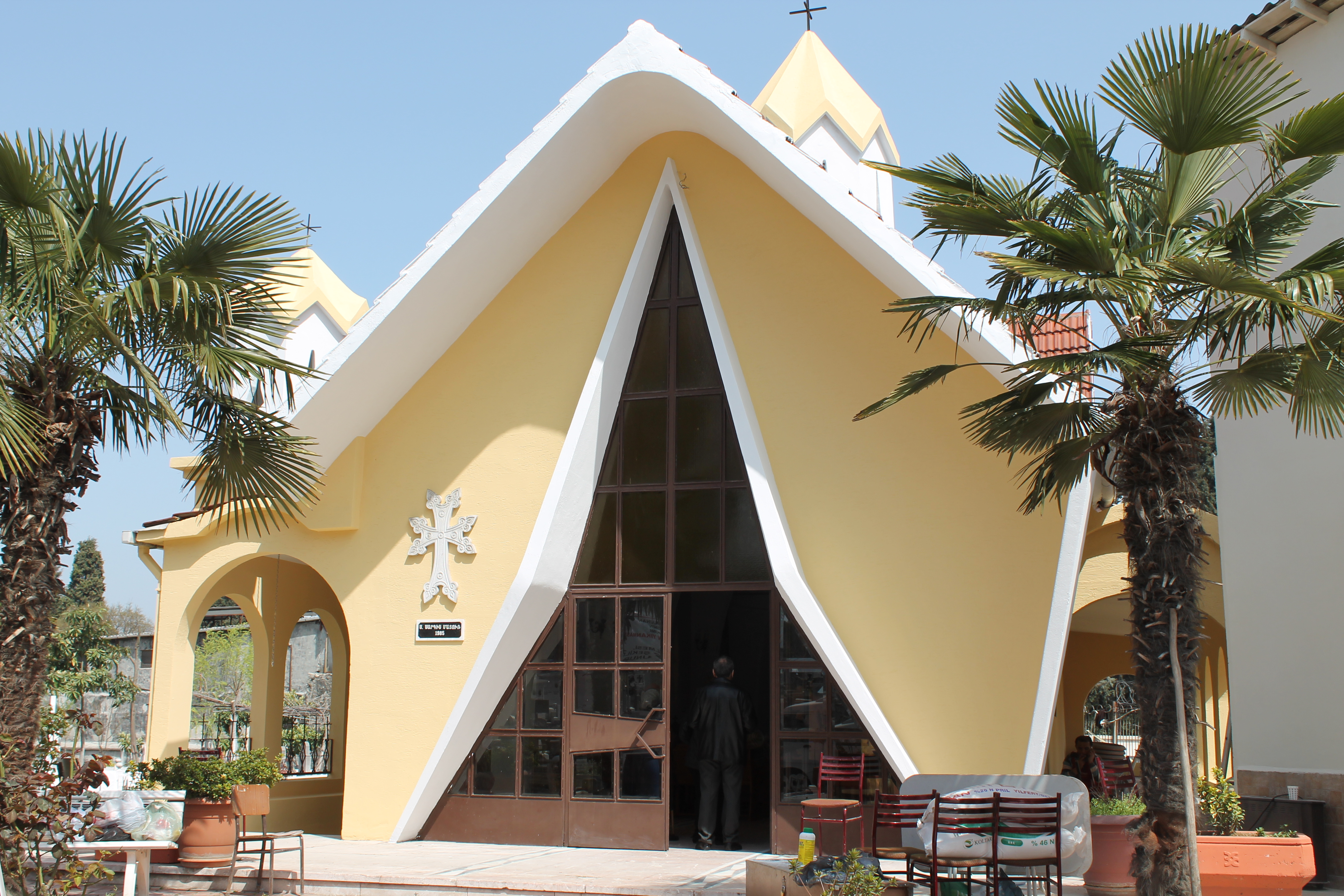 Church in Balıklı Armenian cemetery, ZeytinburnuTürkçe: Balıklı Ermeni Mezarlığındaki kilise, Zeytinburnu